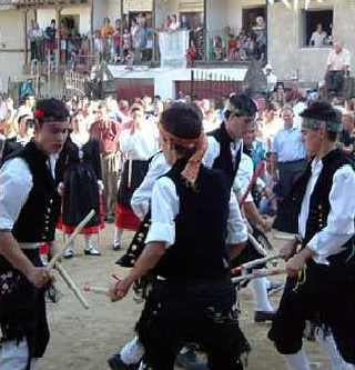 Dance